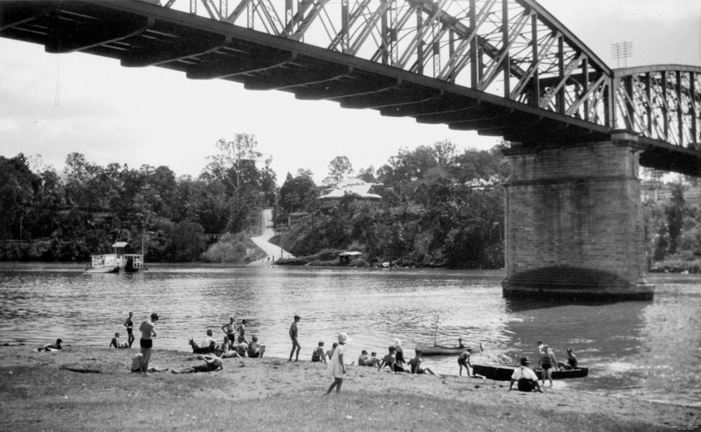 Swimmers cooling off in the Brisbane River at Chelmer Children playing with and around boats in the Brisbane River under the Indooroopilly Railway Bridge at Chelmer. The car ferry is crossing the river to meet the track winding up the hill and several houses can be seen through the trees on the Indooroopilly side of the river. A small boatshed is also visible.